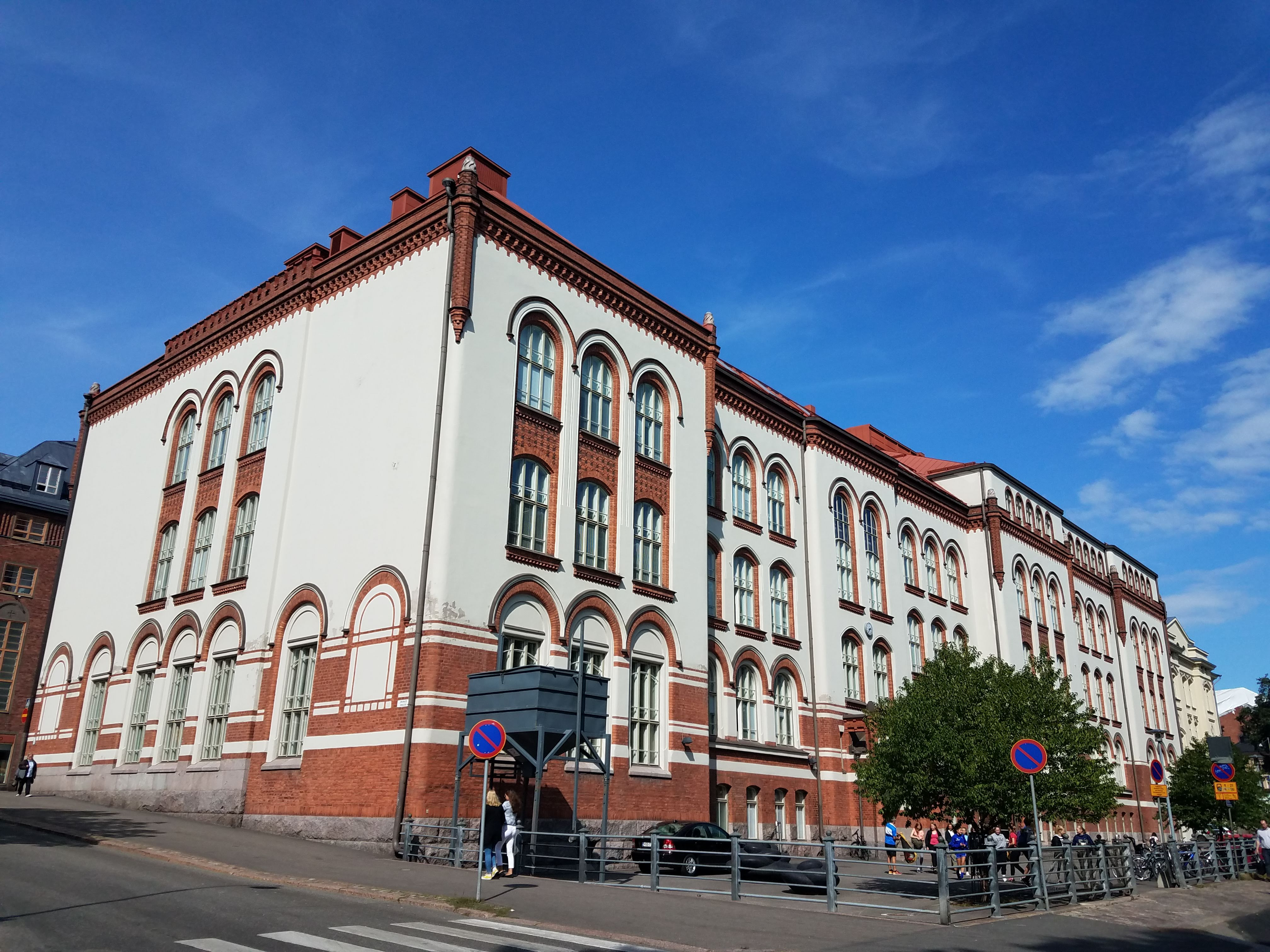 Helsingin Normaalilyseo (Helsinki Normal Lyceum) at Ratakatu 6A/B by architects Jacob Ahrenberg (aka Jac. Ahrenberg) and Yrjö Sadenius, dates from 1905 and underwent subsequent extensions and alterations. The school, although its name has changed over the years, is the original occupant of the building. It is affiliated with the University of Helsinki.